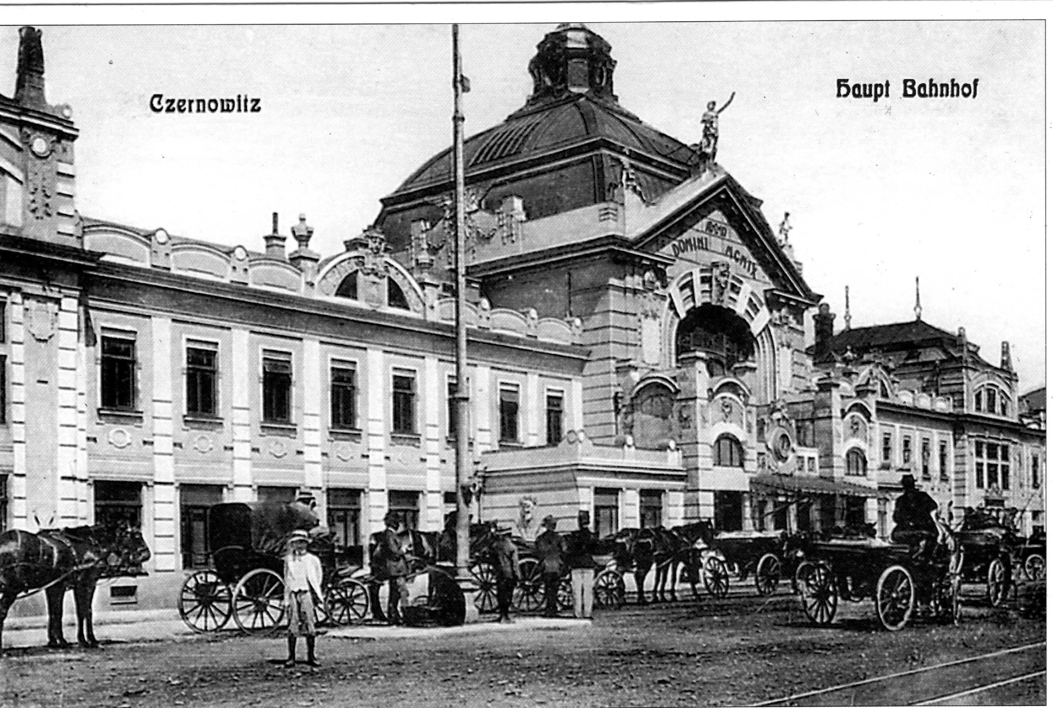 Czernowitz train station in 1909